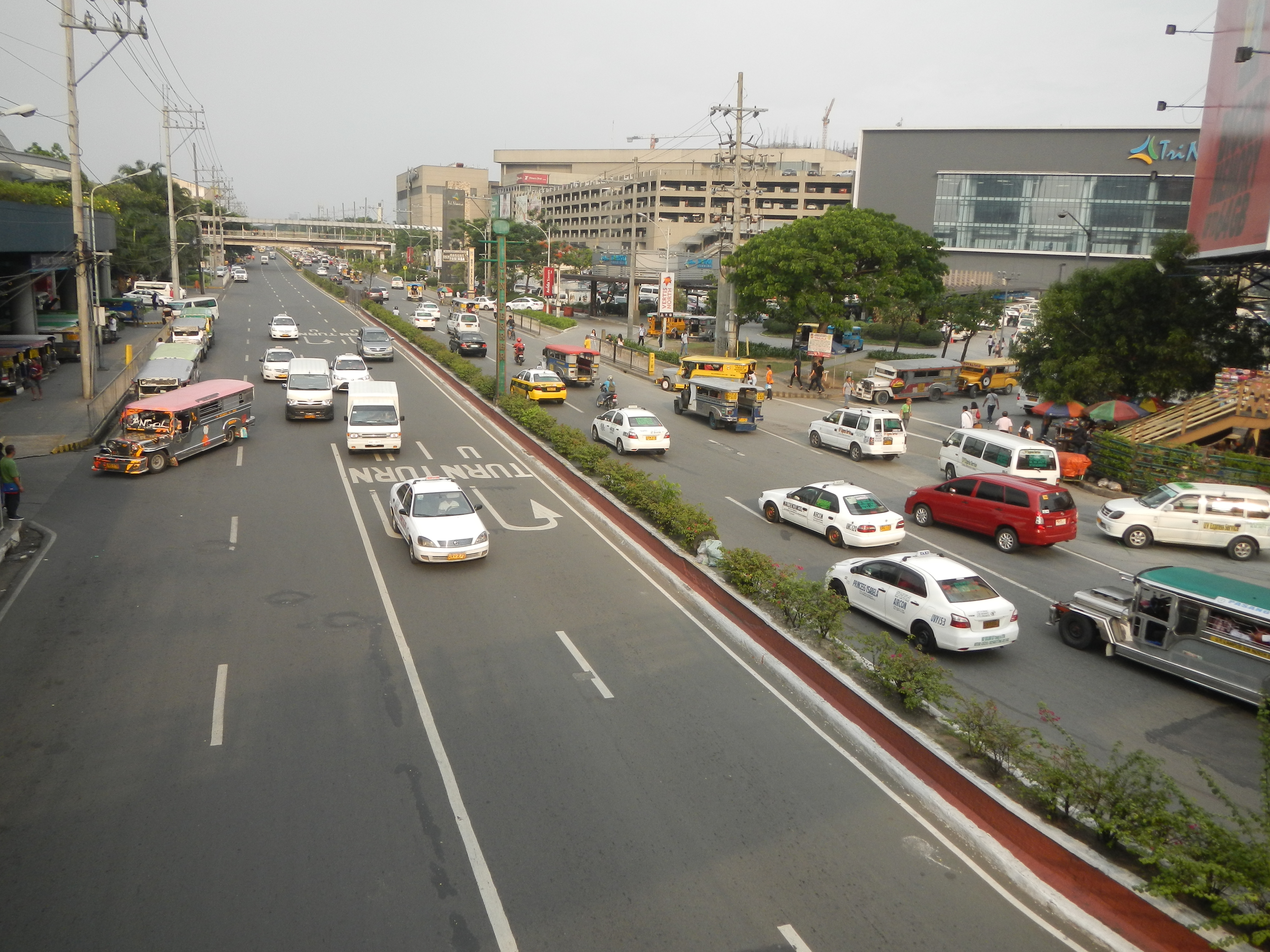 West North Footbridge (West Avenue corner North Avenue, EDSA, Quezon City) North_Avenue, Quezon City SM City North Edsa Kopiko (confectionery, advertisements in the Philippines) Kopiko (confectionery) Mayora Indah along along Epifanio de los Santos Avenue (EDSA, North-West Avenue section) of EDSA (road) Epifanio de los Santos Avenue Highway 54) in Legislative districts of Quezon City Districts I, Barangays of Quezon City, Barangay Bungad and Bagong Pag-Asa, District I, Quezon City.